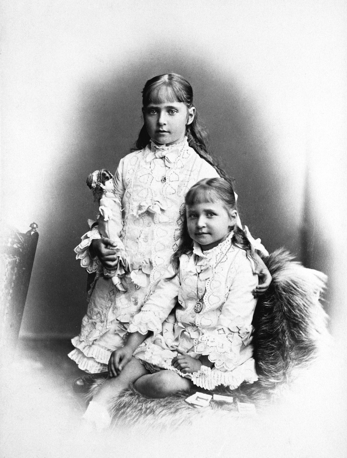 Princess Marie (right) seated, her left leg tucked under her right; she looks to front. Princess Alix stands to Marie's right, her left arm around Marie's shoulders, a doll in her right hand. They wear identical dresses.